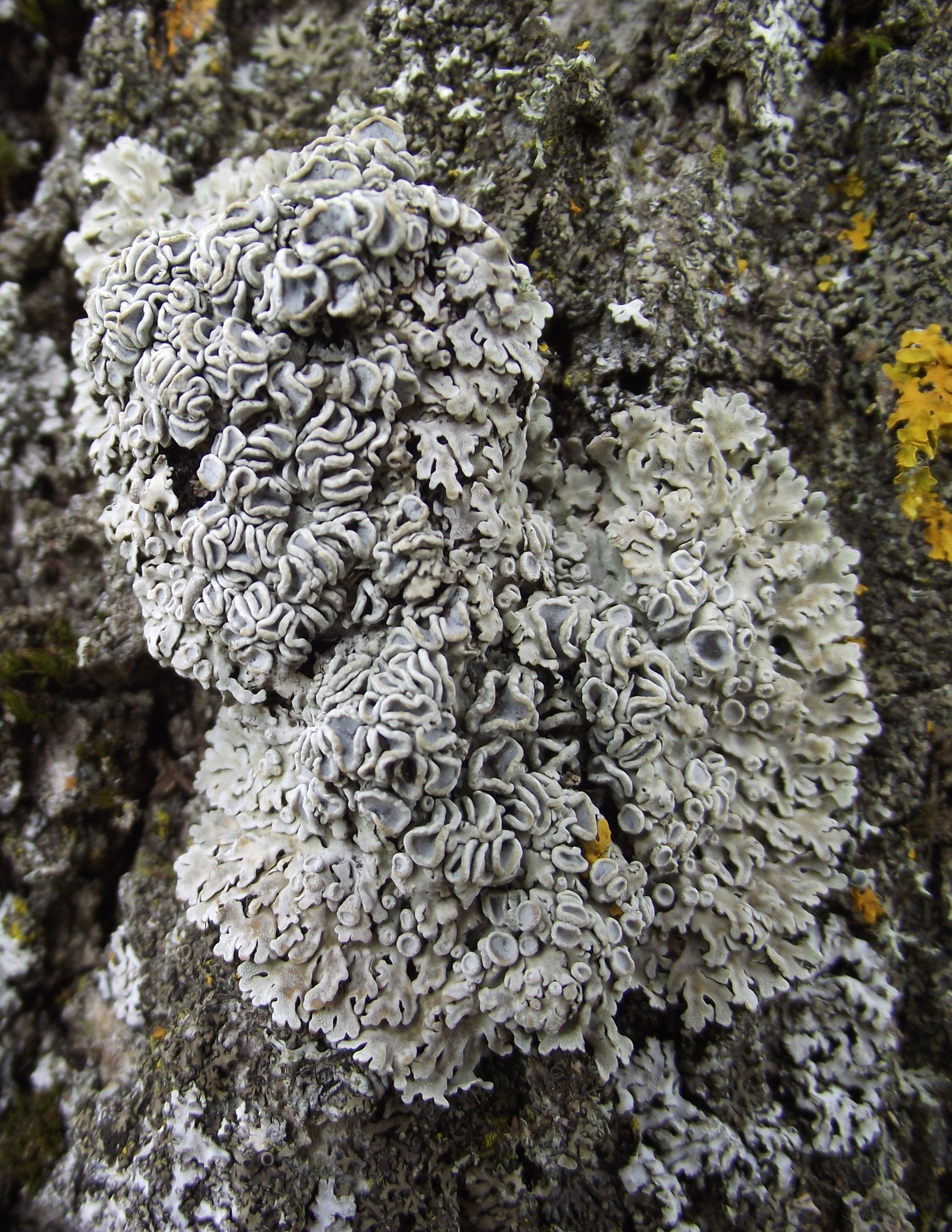 Physconia distorta. Pictured in Prandi, Estonia.